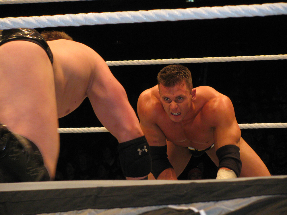 Alex Riley & The Miz @ Adelaide, South Australia 'RAW' house show on the 4th of July '11